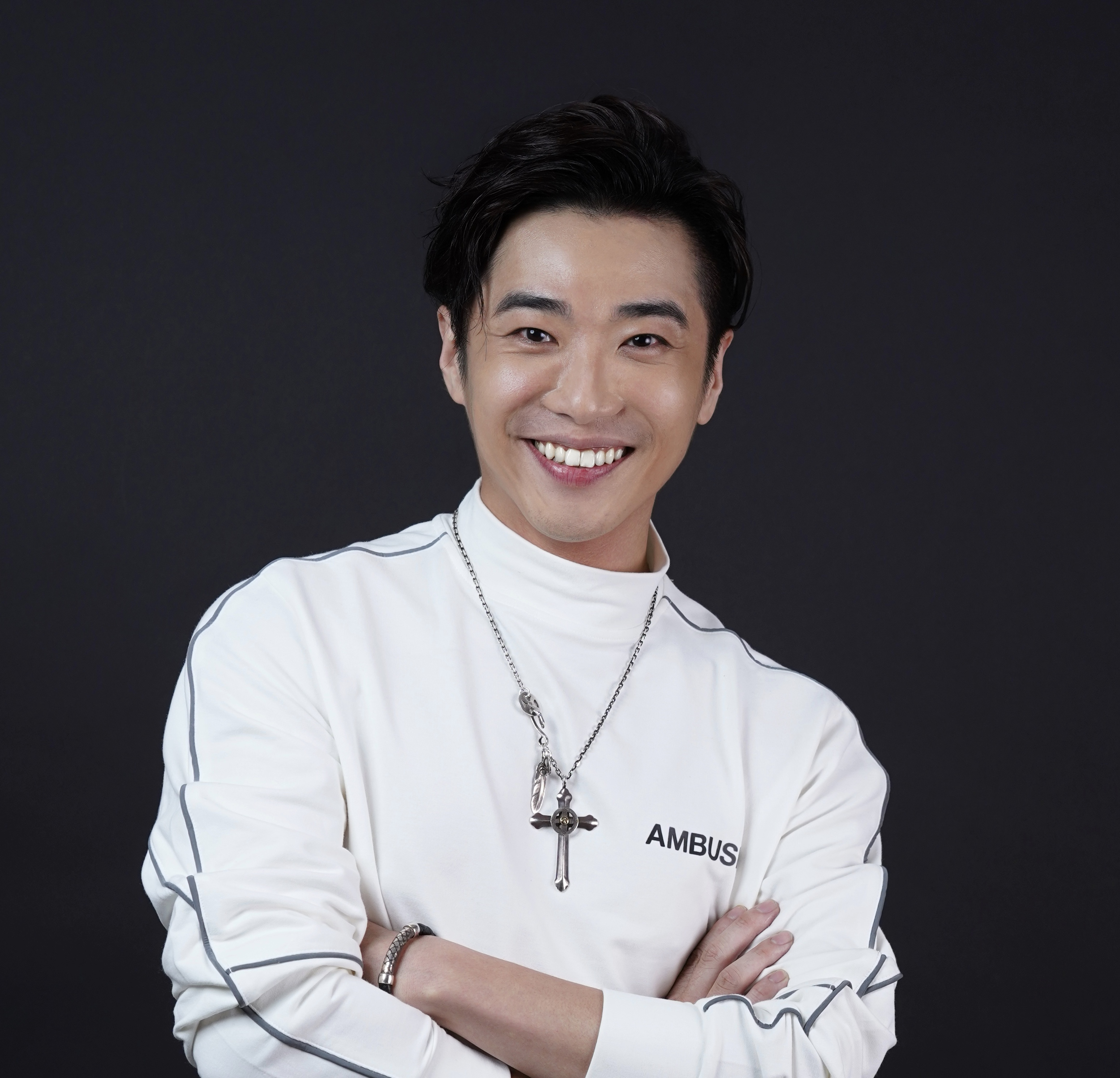 Taiwan Artist DAVE form 2KD5.